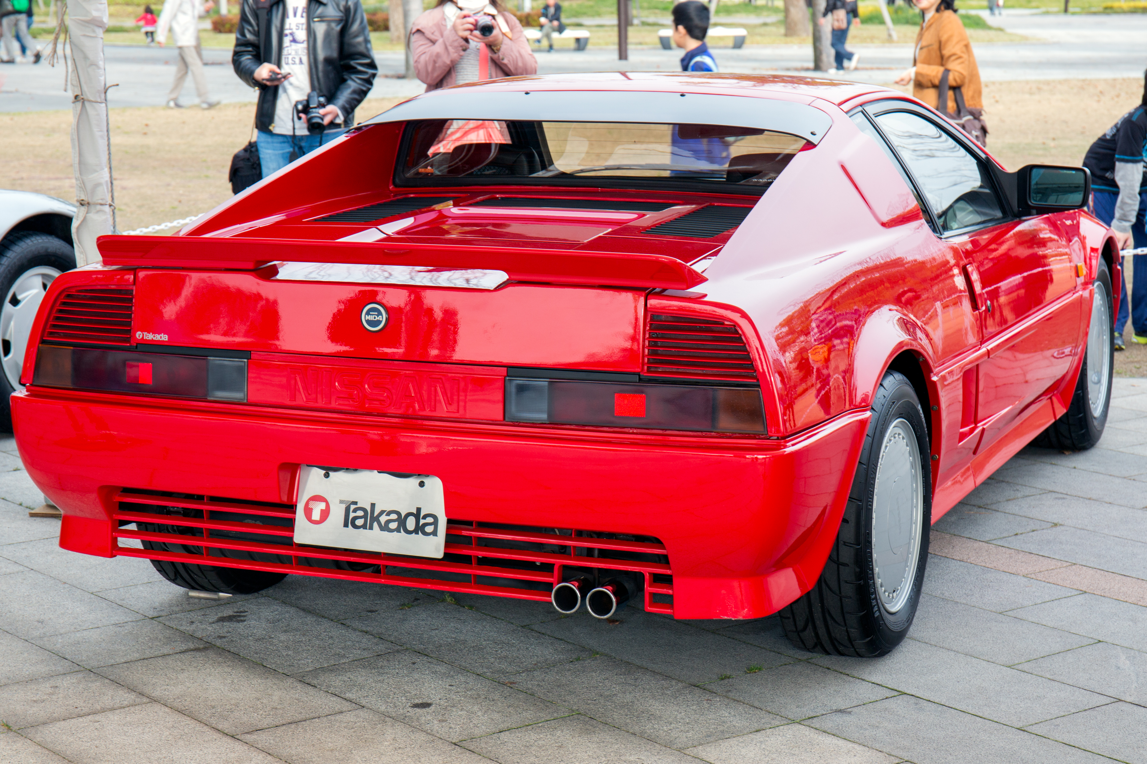 Motorsport Japan 2015: 1985 Nissan MID4